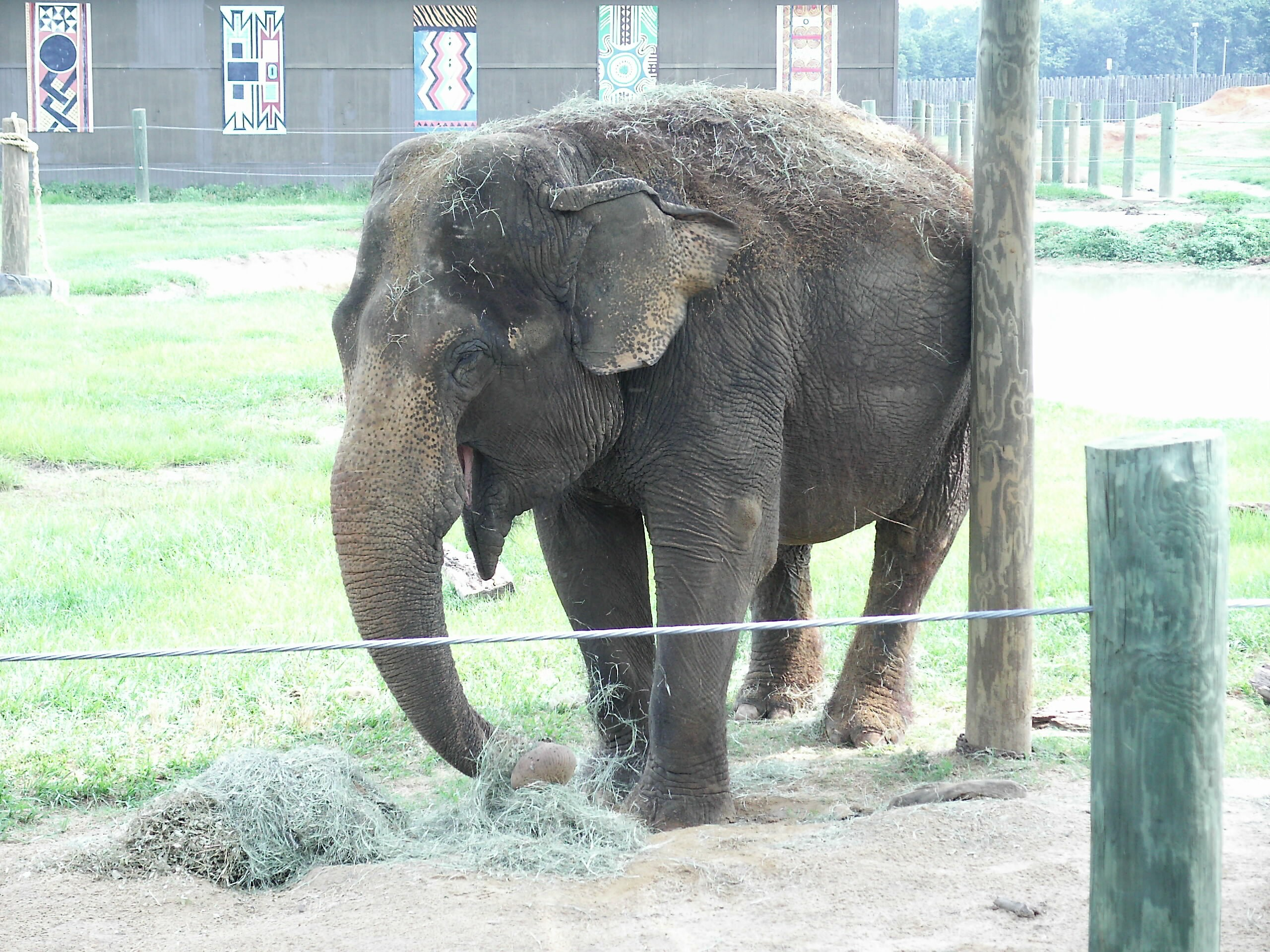 Elephant at Wild Adventures Theme Park